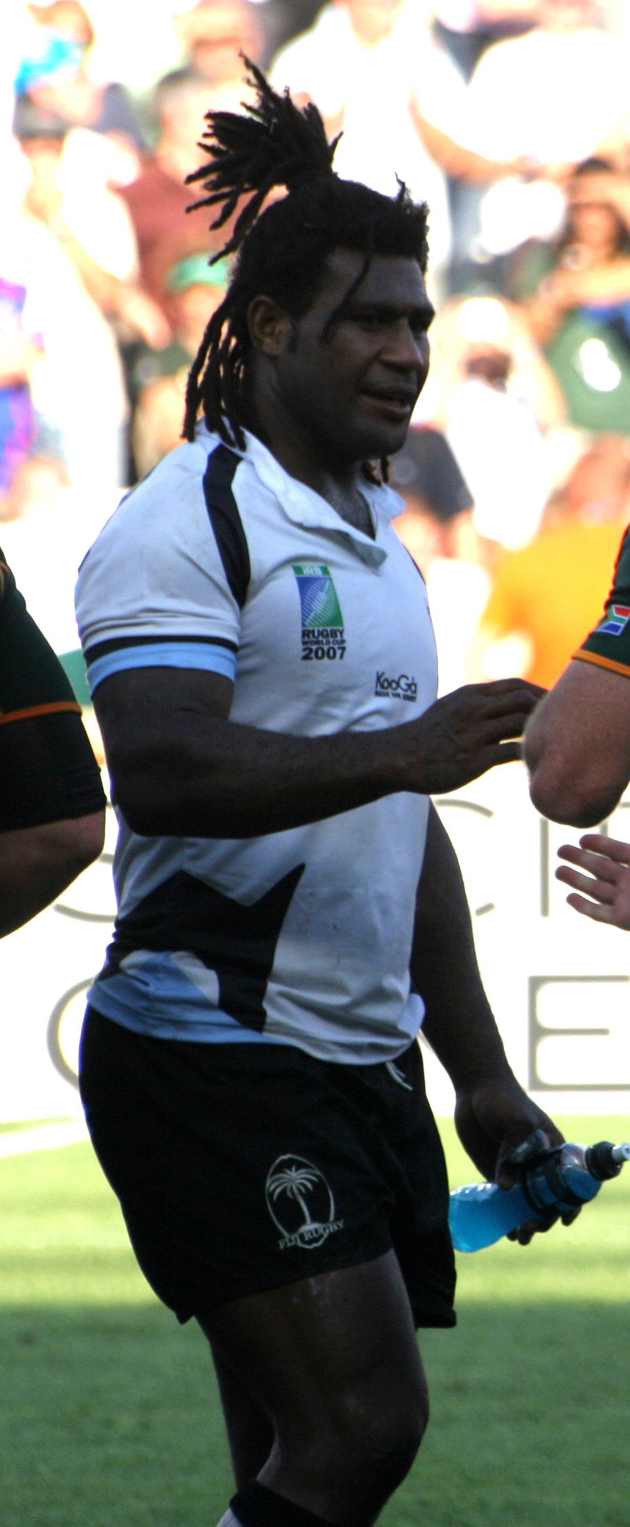 Fijian rugby union player Seru Rabeni during 2007 Rugby World Cup quater-final against South Africa, that took place in Marseille.